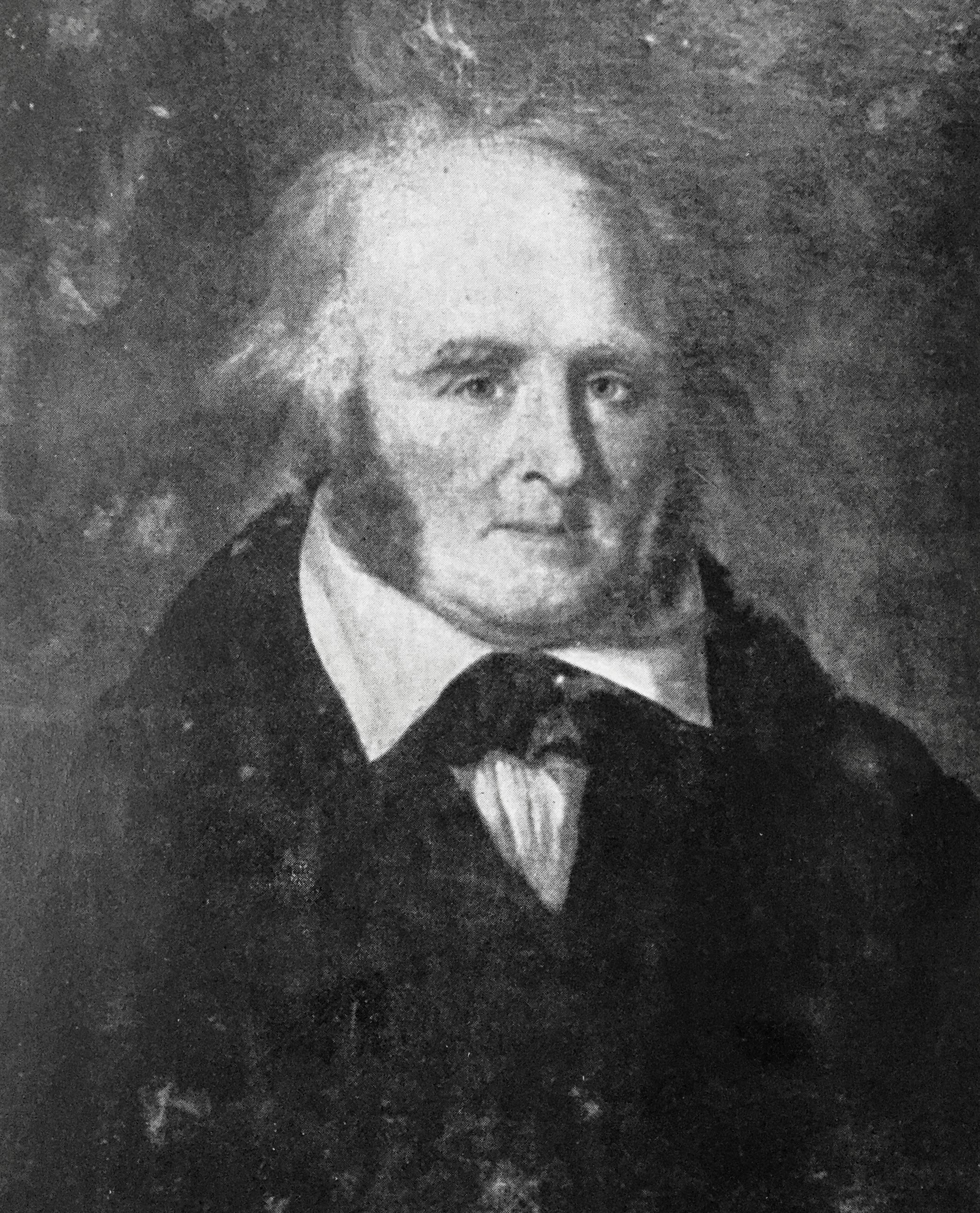 Portrait of William "Tiger" Dunlop, by unknown artist